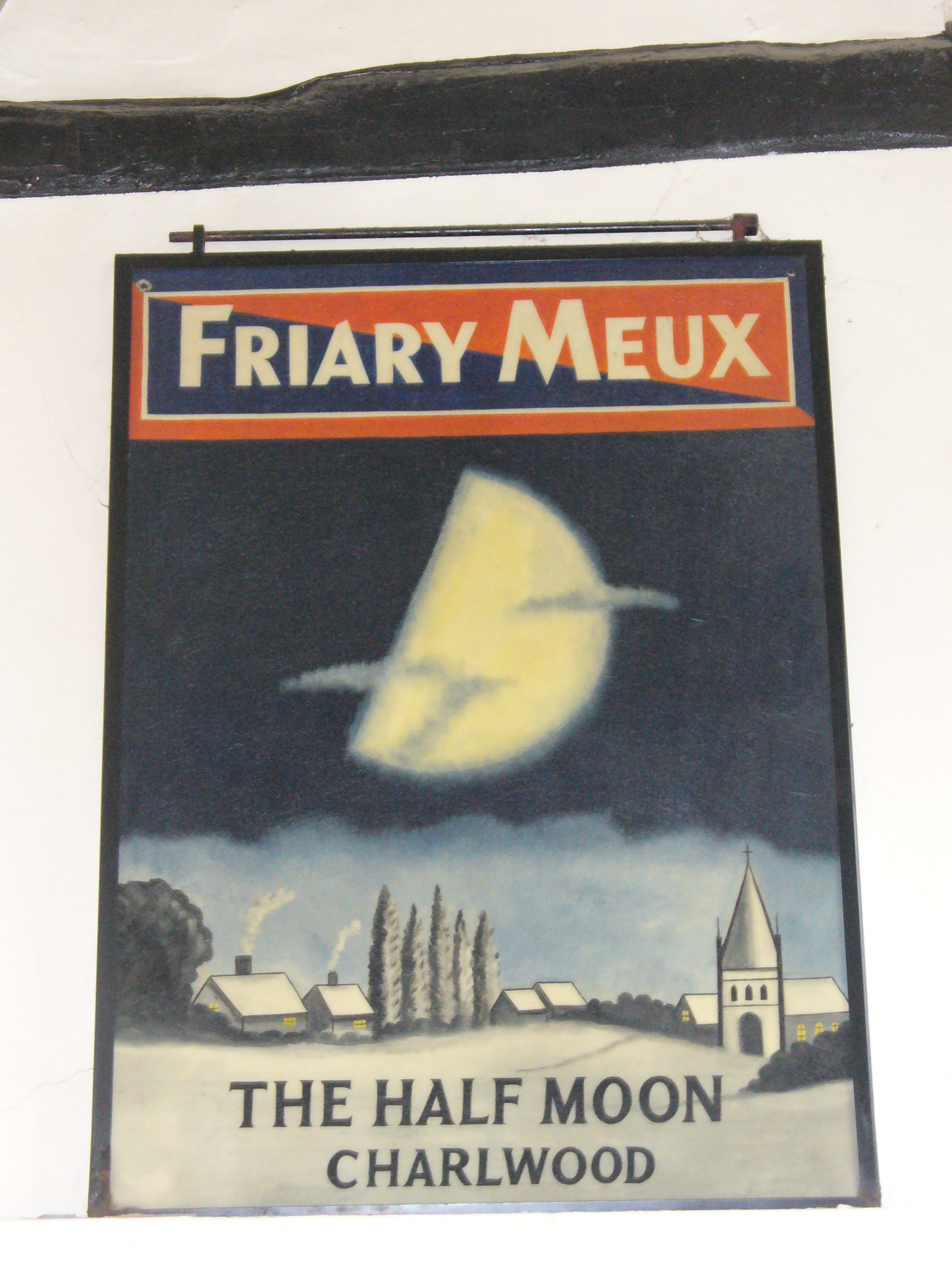 The Half Moon, Charlwood Old pub sign hanging inside the Half Moon. Friary was a Guildford brewery; Friary Meux followed and its offices were in Godalming.